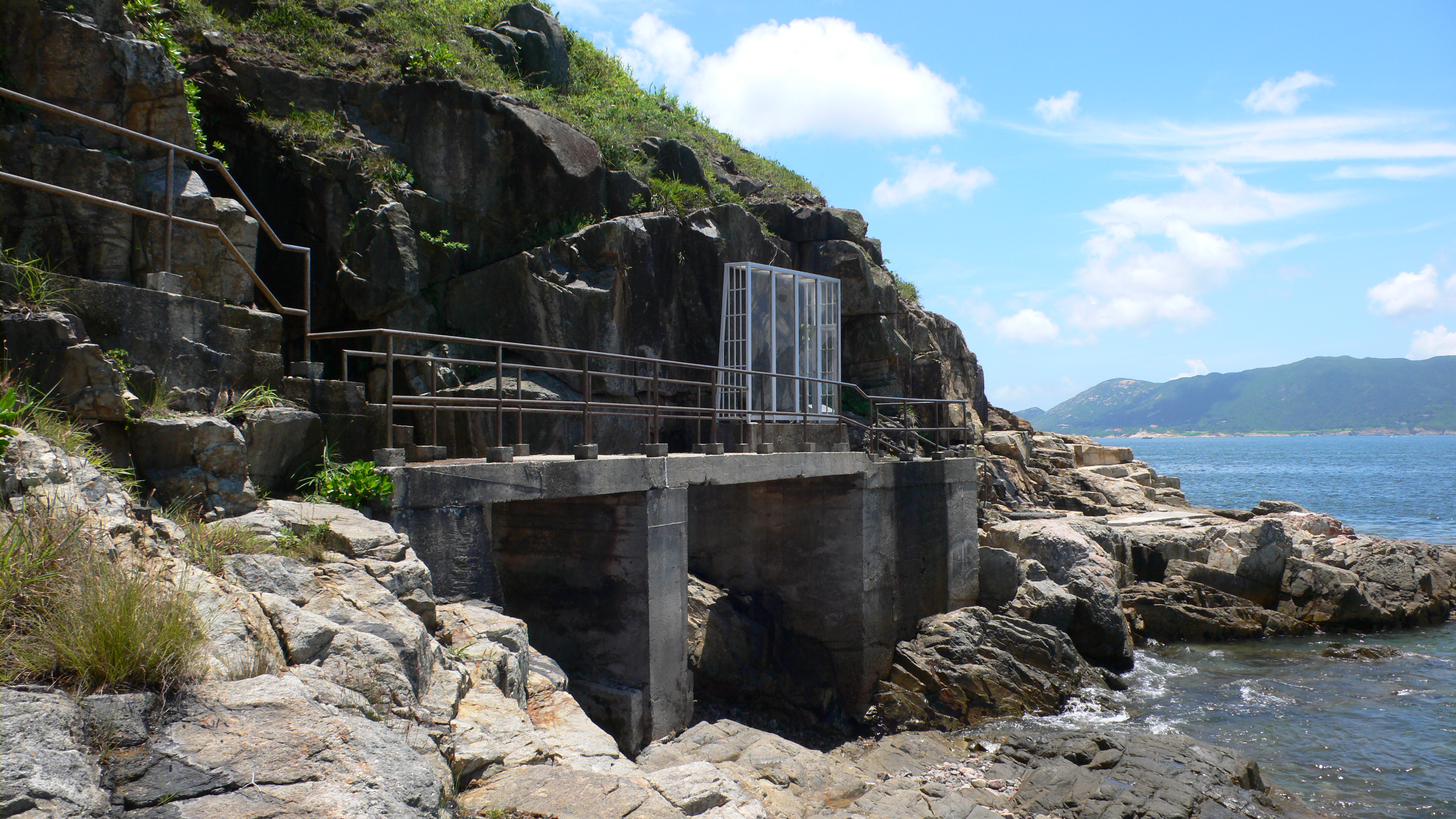 On the outlying island Tung Lung Chau at the east of Hong Kong, there is a rock carving which is declared as a historical monument.